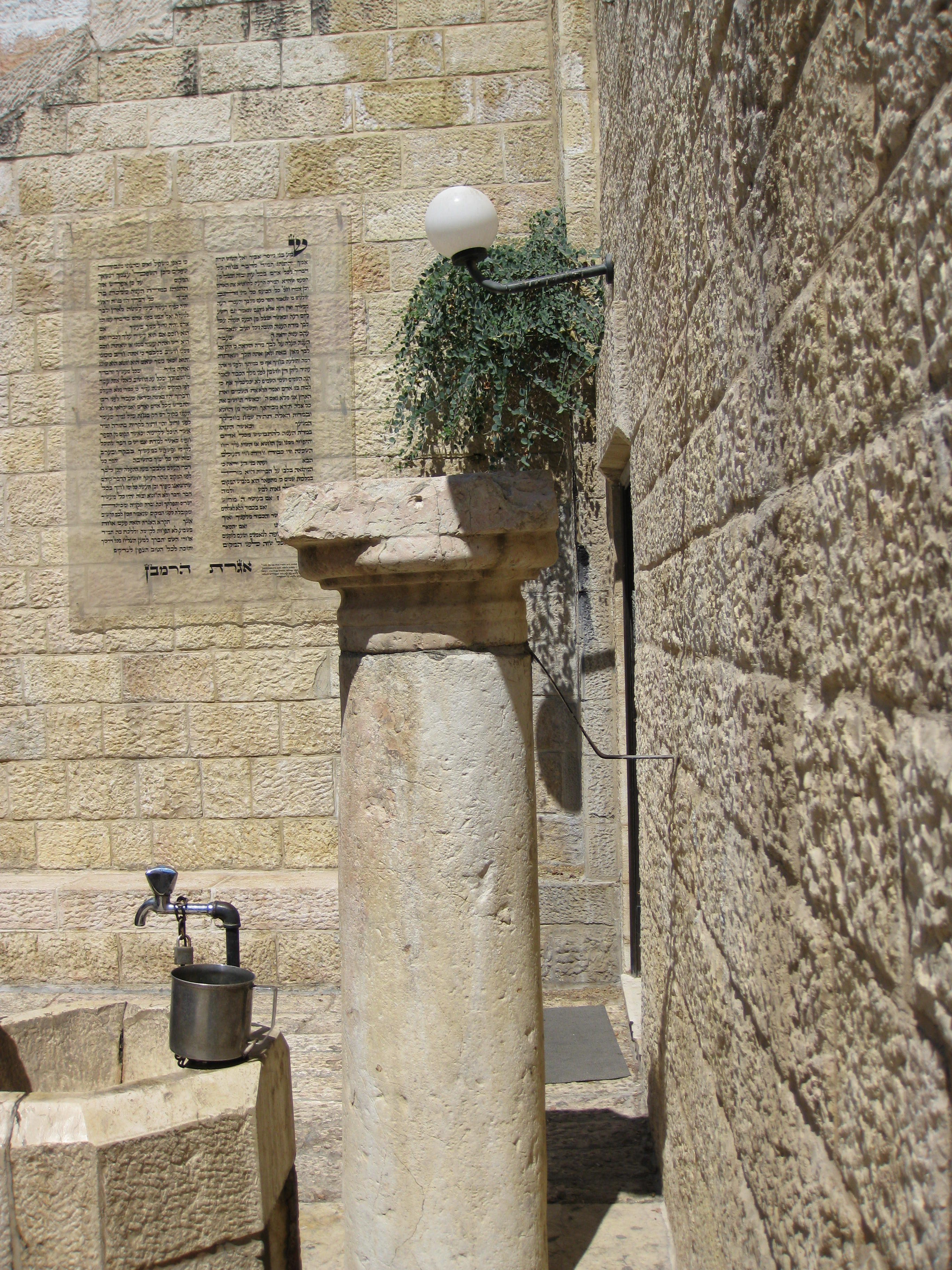 Old Jerusalem - Jewish Quarter - netilat yadayim Sink next to the Ramban Synagogue. On the wall, the letter from the Ramban to his son (Igeret Ha-Ramban).